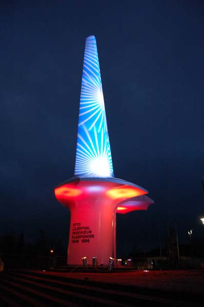 Otto Lilienthal Memorial, Anklam (Germany), Walther Preik, 1982, polyester reinforced with glass fibres. Text: Otto / Lilienthal / Ingenieur / Flugpionier / 1848 1896